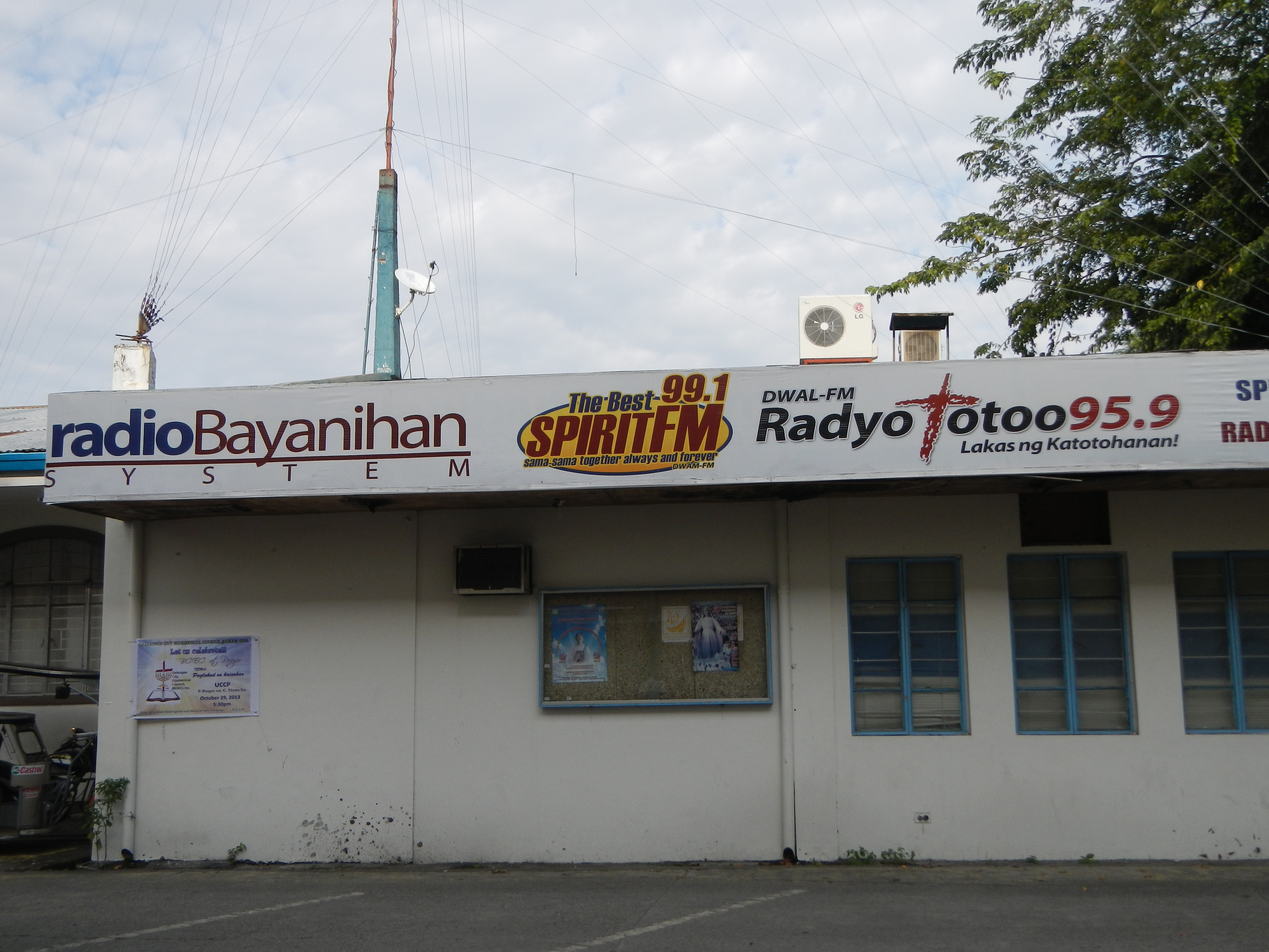 Upload Wizard -- (general description of landmarkds, town, church) - of - DWAM - 99.1 Spirit FM[1] (FM Radio station based in Batangas City a music FM station owned by Archdiocese of Lipa[2] and member of the Catholic Media Networkstation's studio located at Brgy. 7 C. Tirona St. Batangas City and transmitter at Brgy. Sto. Domingo, Batangas City, Philippines) - indside the Basilica Minore of the Infant Jesus and Immaculate Conception of Batangas City[ (the largest and capital city of the Province of Batangas, [3] the "Industrial Port City of Calabarzon", 2010 census, population of 305,607 people) - Minor Basilica of the Immaculate Conception was built in 1581 with improvised materials- List of basilicas [4] Coordinates: 13°45'14"N 121°3'33"E[5] belongs to the Roman Catholic Archdiocese of Lipa[6] Vicariate III: Vicariate of the Immaculate Conception Minor Basilica of the Immaculate Conception - [7] Immaculate Conception Minor Basilica, baroque-styled basilica erected in 1857 under Fr. Pedro Cuesta, declared a Minor Basilica by Pope Pius XII on February 13, 1945, first basilica, houses the original Sto. Niño ng Batangan, a miraculous statue of the Infant Jesus; [8] [9] [10] The Twelve Minor Basilicas in the Philippines [11] [12].